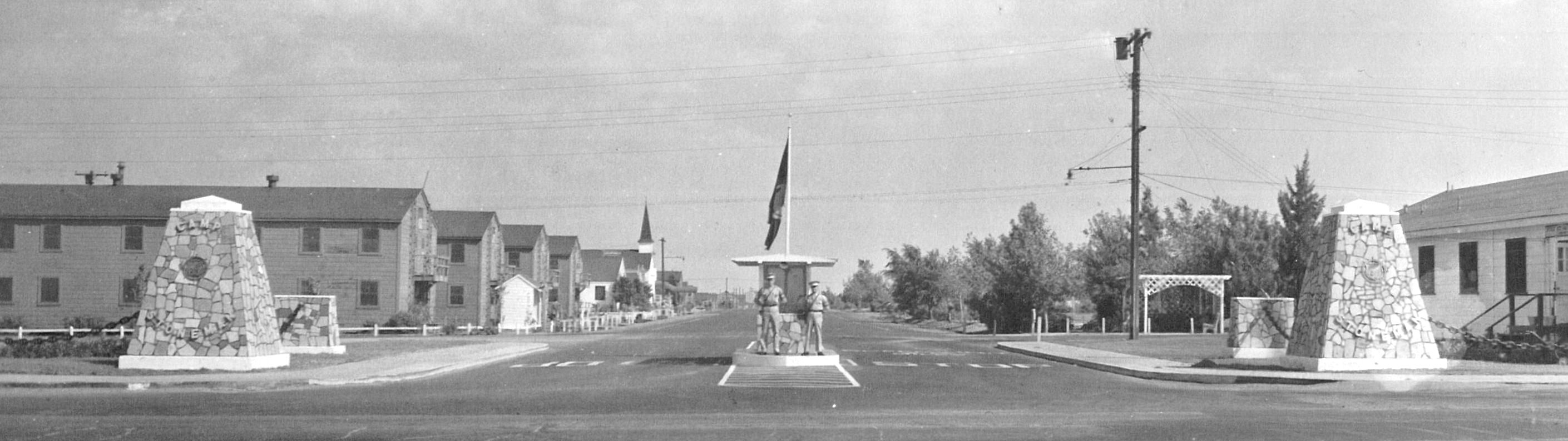 Camp Stoneman Gate 1, looking East. In 2017 this was around 2527 Railroad Avenue, just south of Leland Rd. The left pylon is now in the Veterans Park at Harbor Street and Presidio Lane.